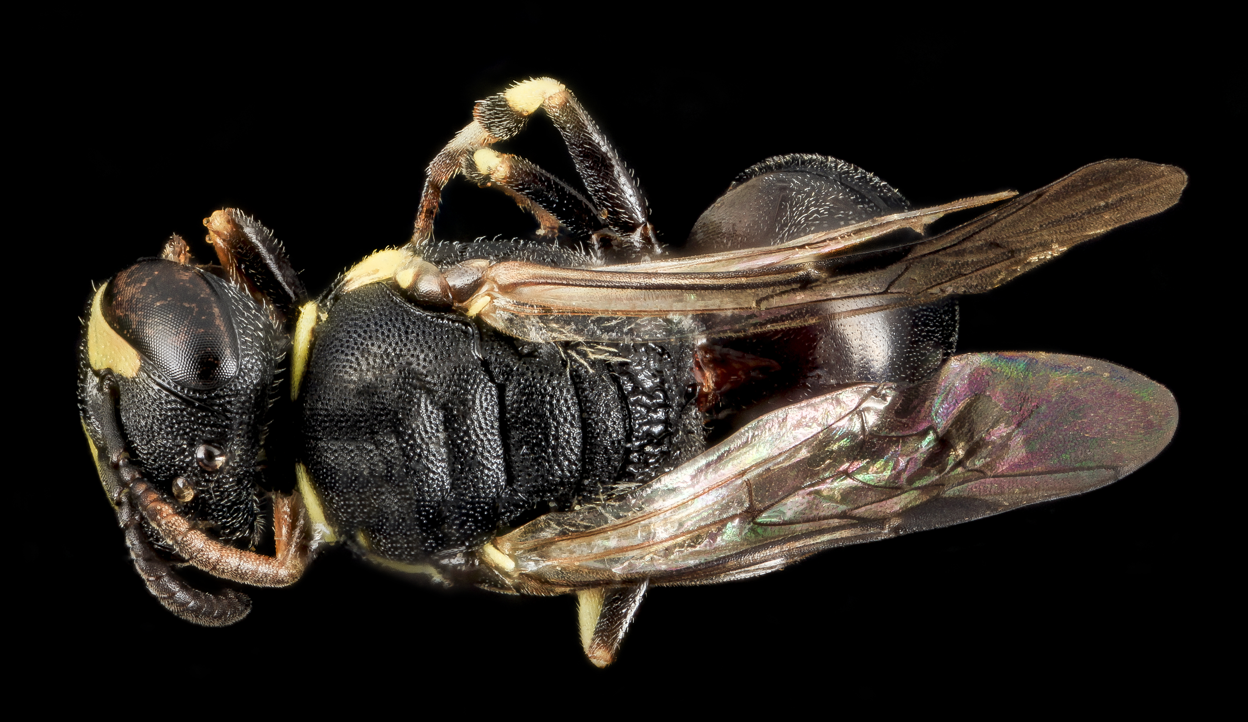 In rough translation this would be the "Florida Masked Bee." Tiny, grain of rice things, and usually mistaken for wasps as they carry their pollen internally rather than in their body hairs like other bees. Thus they have reverted to the wasp shape from whence bees came. This is a rare species collected by Heather Campbell as part of her survey of a sandhill area of North Carolina. Photo by Wayne Boo Canon Mark II 5D, Zerene Stacker, 65mm Canon MP-E 1-5X macro lens, Twin Macro Flash, F5.0, ISO 100, Shutter Speed 200, link to a .pdf of our set up is located in our profile